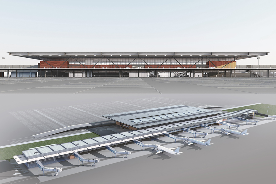 Florida Airport New Terminal